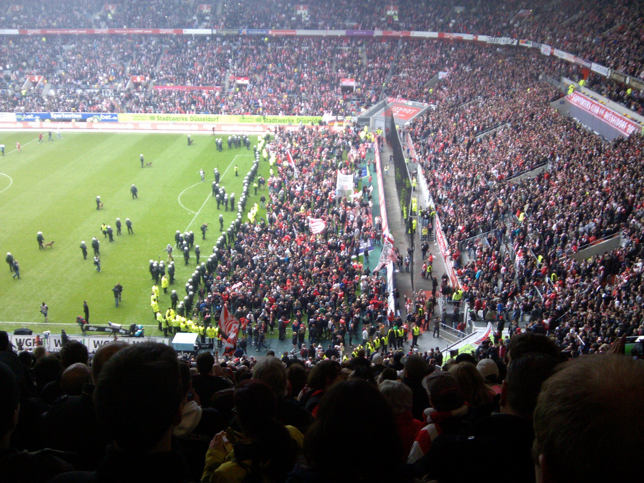 partial pitch invasion after a game of the german second Bundesliga between Fortuna Düsseldorf and MSV Duisburg at May 6, 2012 in Stadium of Düsseldorf